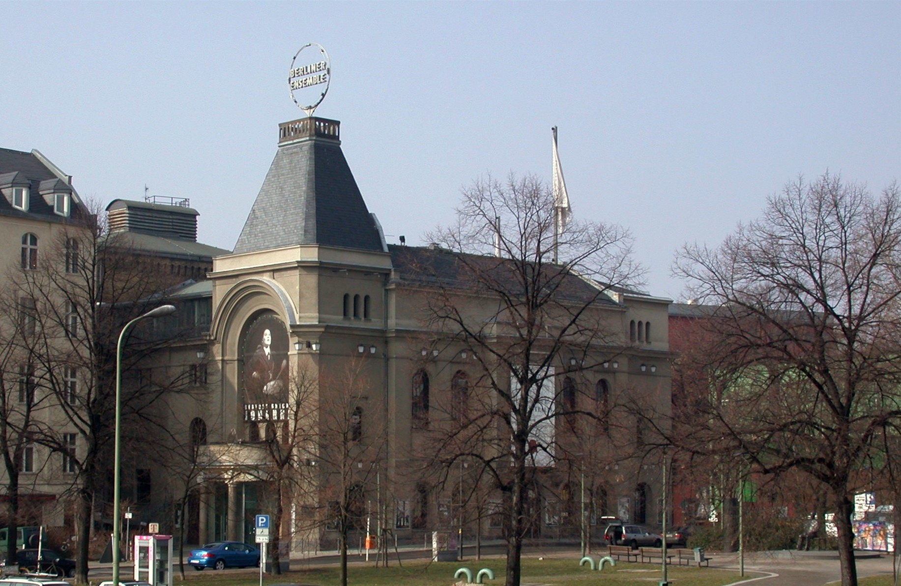 B.-Brecht Theater Berlin Schiffbauerdamm Photographed by Silke Sohler, own work, 2001, Germany; Image improved by Bonzo*